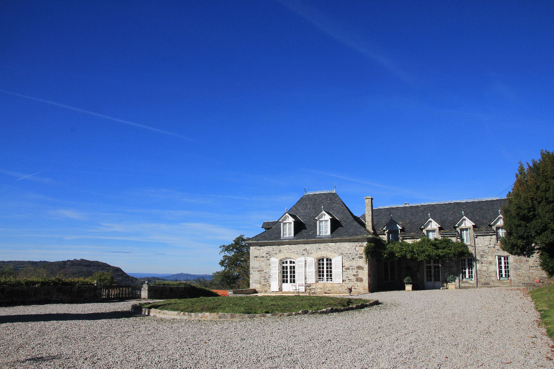 South Facade Tautal-Bas castle in Valette (Cantal, Auvergne, France).